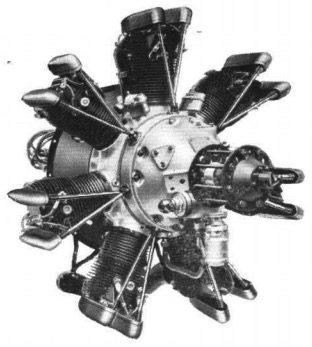 Amstrong LYNX engine